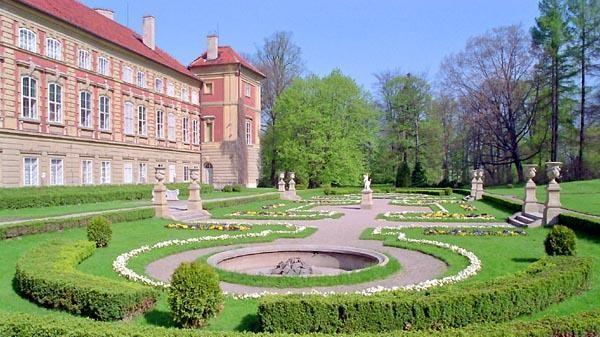 Lubomirski Castle in Łancut in Poland